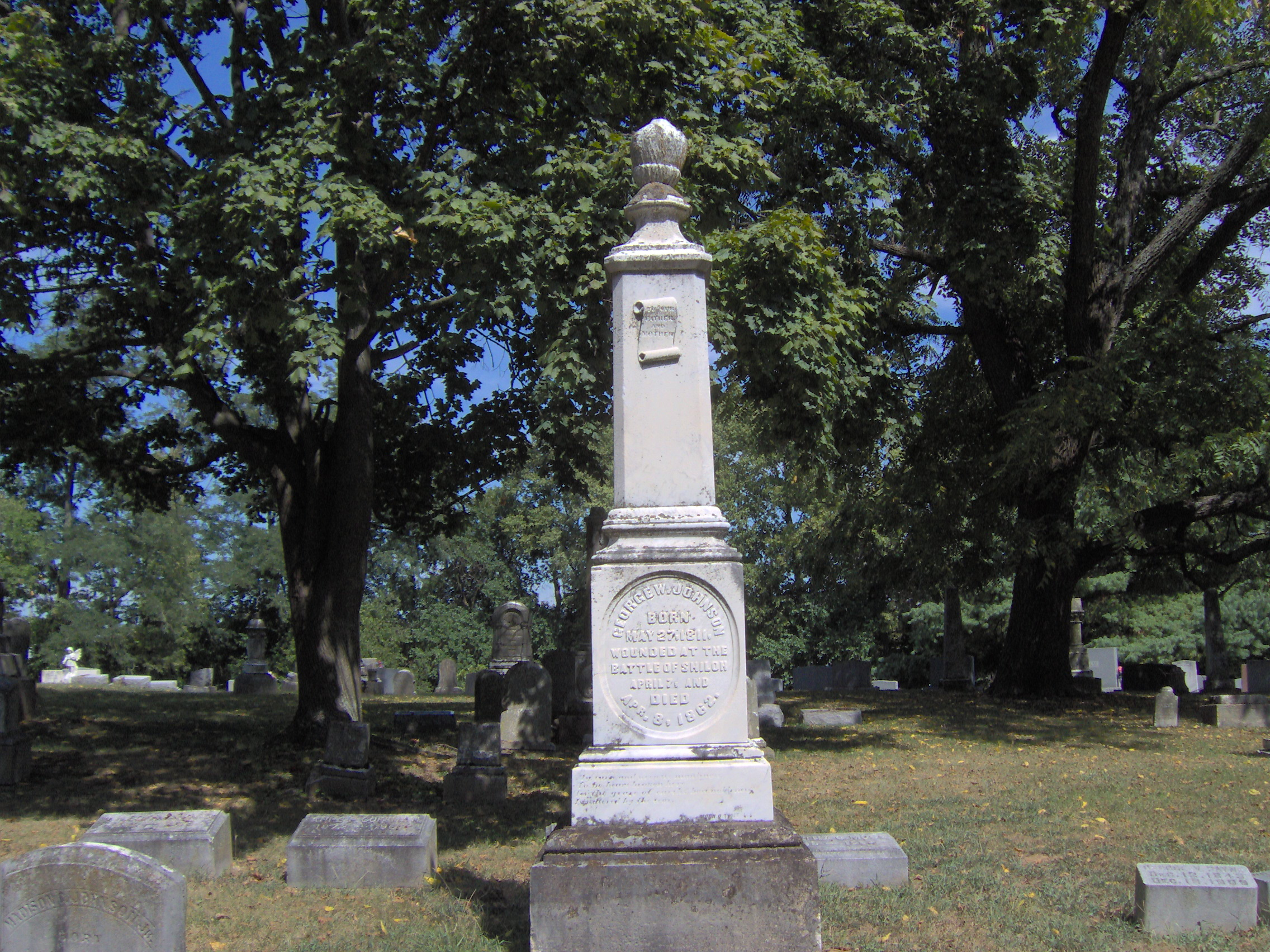 (Original text: Photo taken by Sydney Poore)